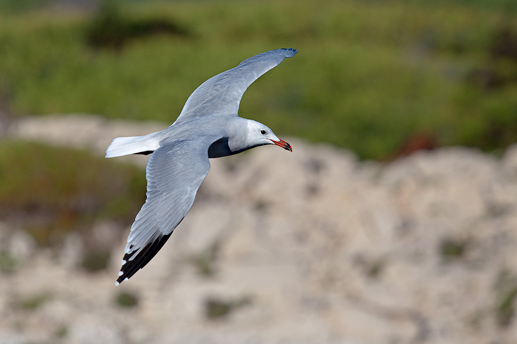 An Audouin's Gull photographed near Simi, Greece